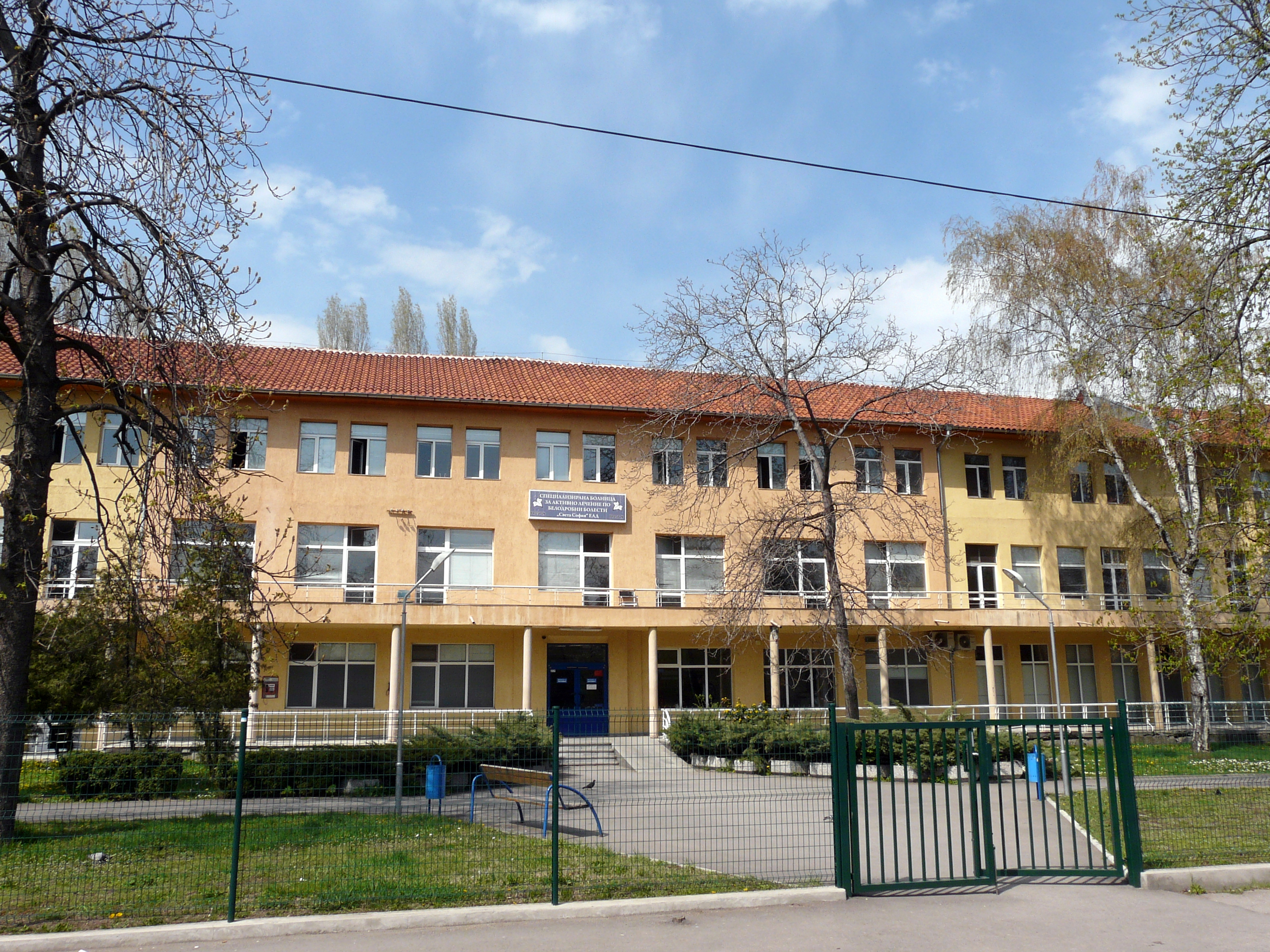 Pulmology - Sofia